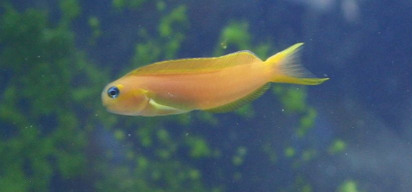 Ecsenius midas swimming in home reef aquarium.